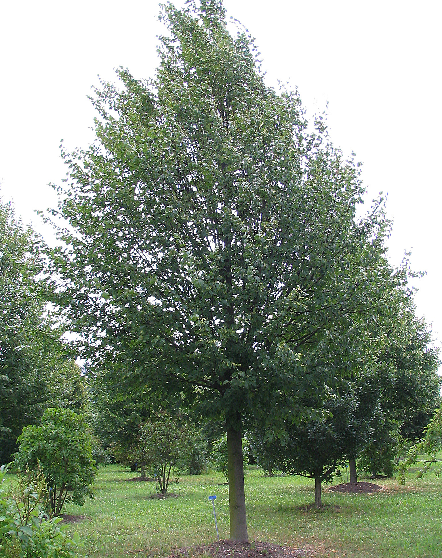 Tilia cordata 'Cordaley'